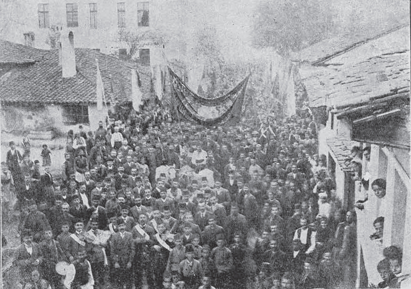 Young Turks' celebration in Prilep, 1908